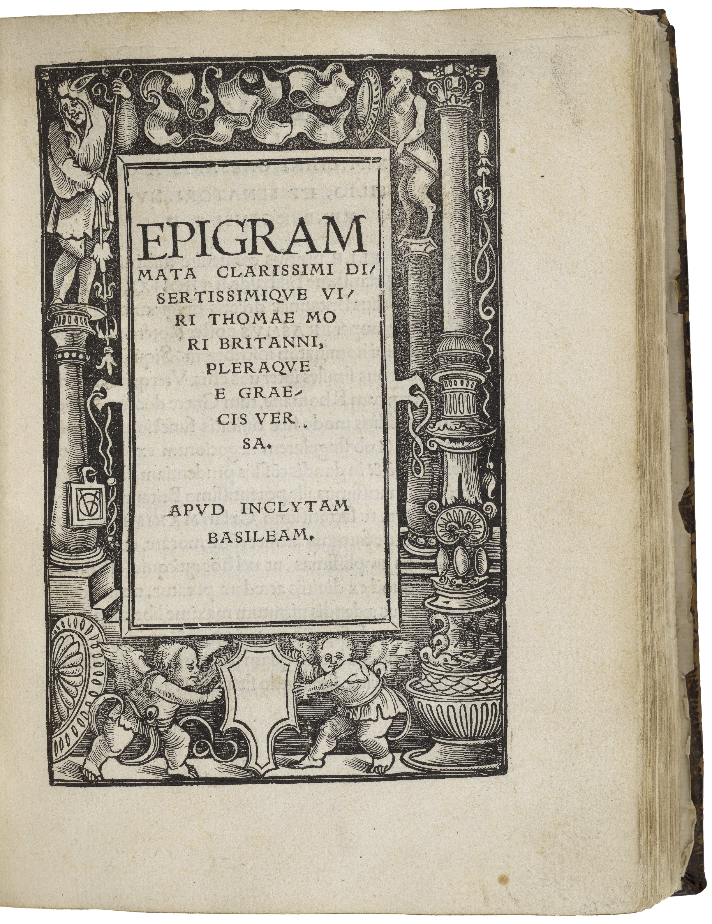 This is the page title of Thomas More's Epigrammata following Th. More's Utopia as published in the book printed by Johan Froben in novemebr in 1518.